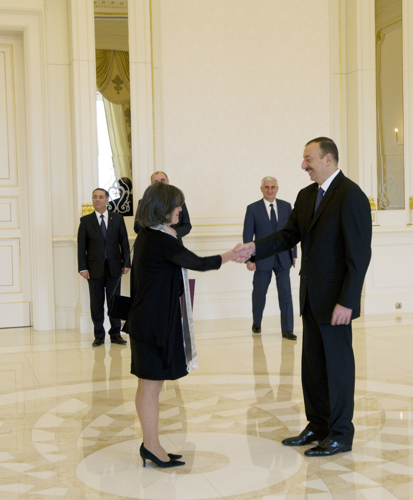 Azerbaijani President Ilham Aliyev receives credentials of newly-appointed Ambassador of Portugal Luisa Bastos de Almeida